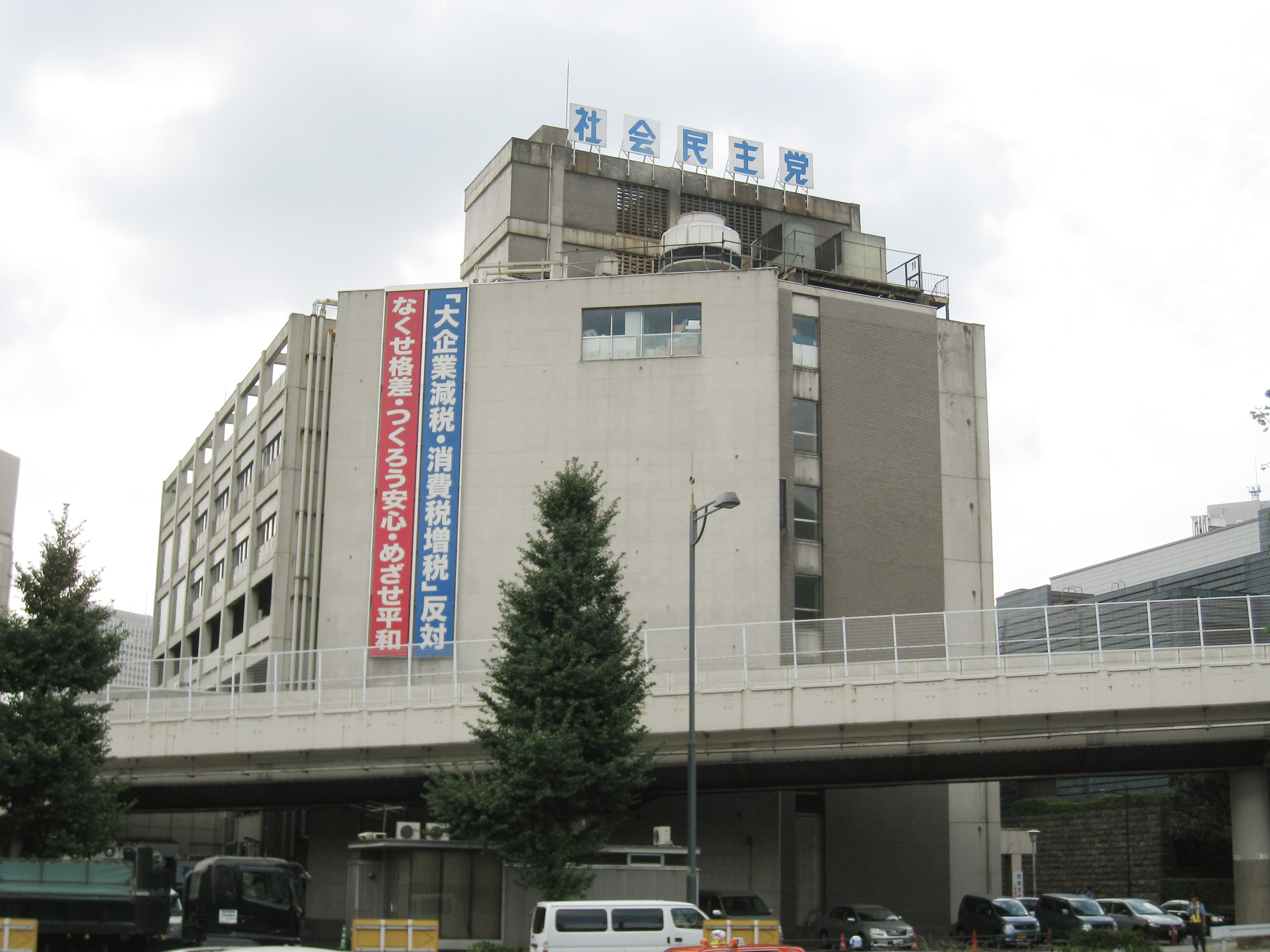 Headquarters of the Social Democratic Party of Japan (社会民主党 Shakai Minshu-tō), located at Category:Nagatachō, Chiyda, Tokyo, Japan